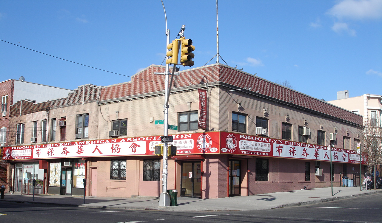 Brooklyn Chinese-American Association Headquarters